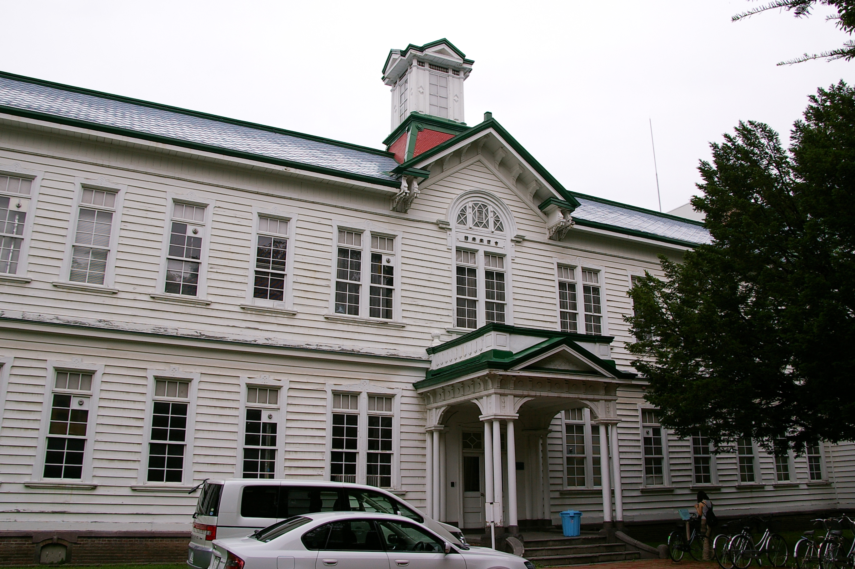 Photograph of Furukawa Hall, Hokkaido University in kita-ku, Sapporo, Hokkaido, Japan.